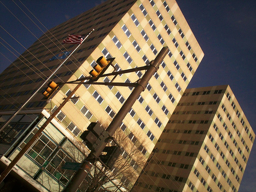 Boulder Towers in uptown Tulsa oklahoma